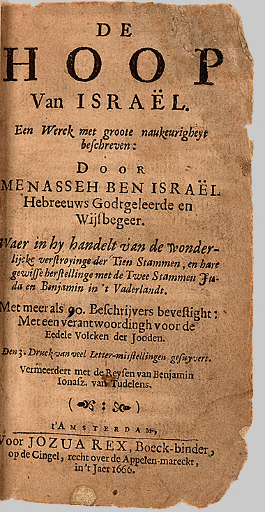 Dutch translation , Printed in Amsterdam , 1666